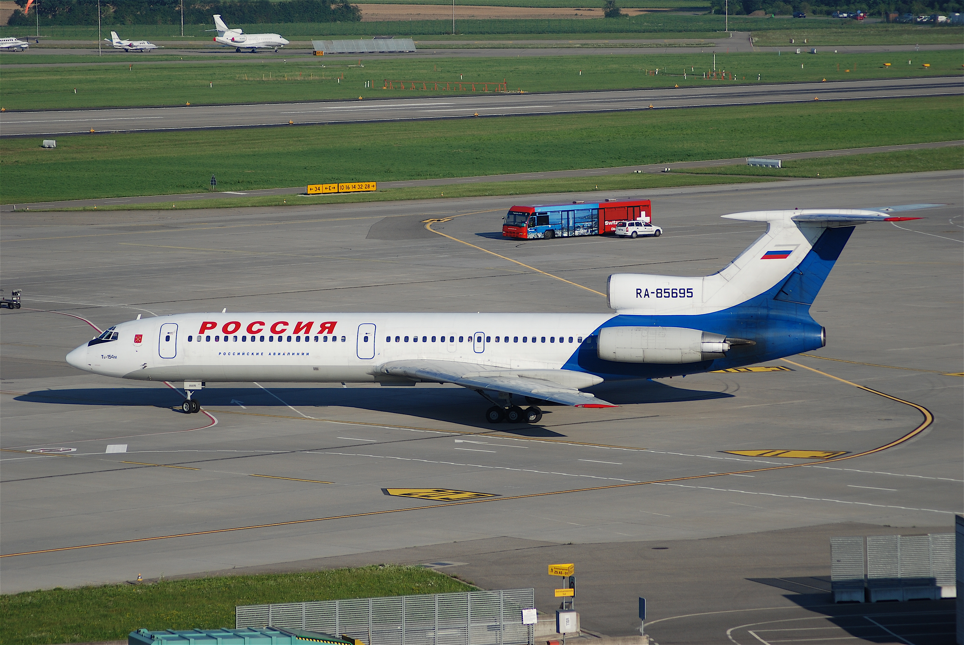 This Tupolev 154M was built in Samara 1991. It is in storage now. The aircraft carries the cyrillic Rossyia titles on the colours inherited from previous operator Pulkovo...